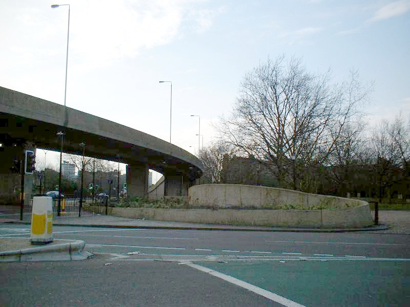 Bricklayers Arms flyover by C Ford 6th March 04.